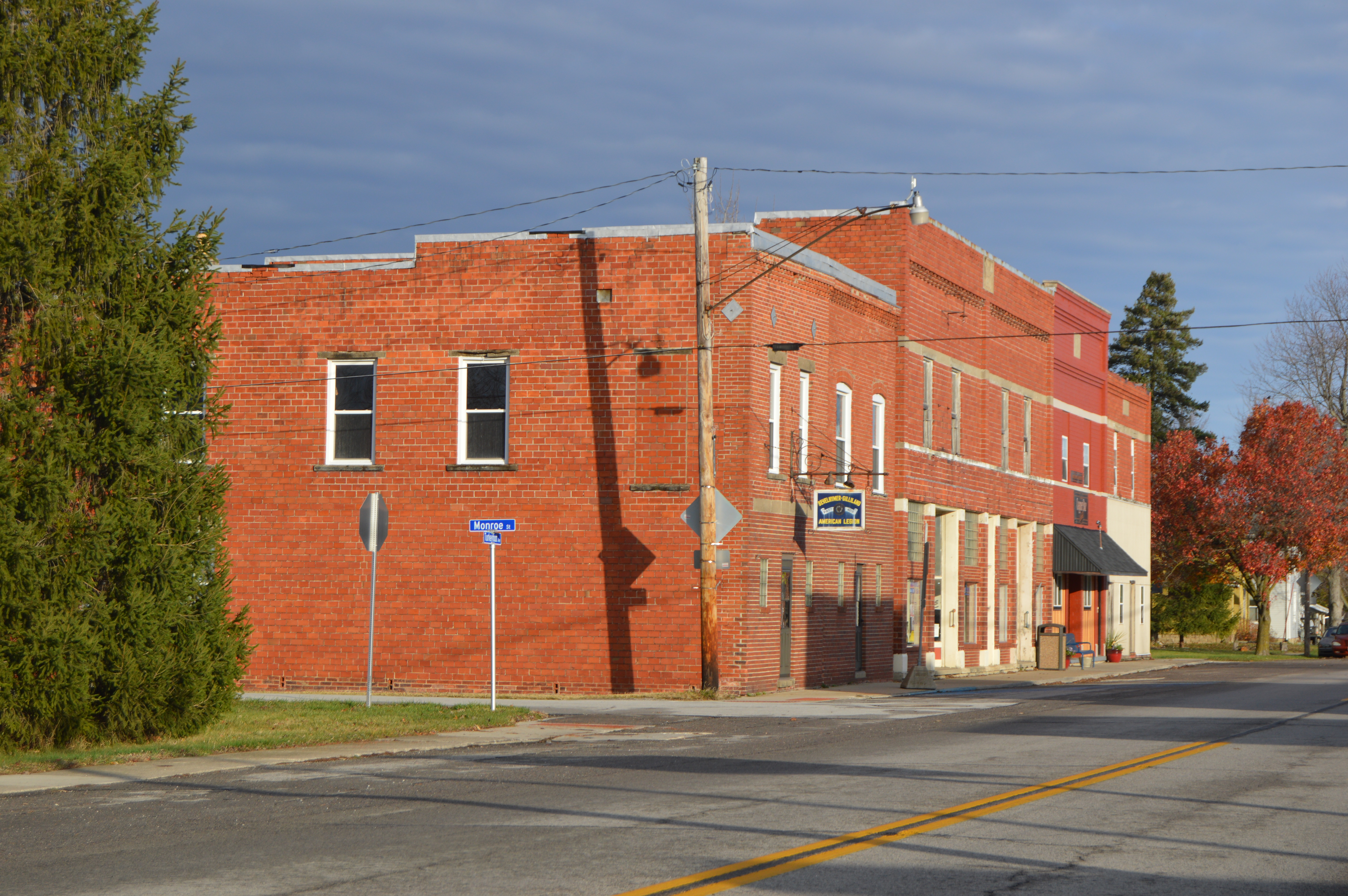 Buildings on the western side of Turkeyfoot Avenue (State Route 109) north of the Monroe Avenue intersection in Malinta, Ohio, United States. Malinta is a small village; this is half of the commercial district.